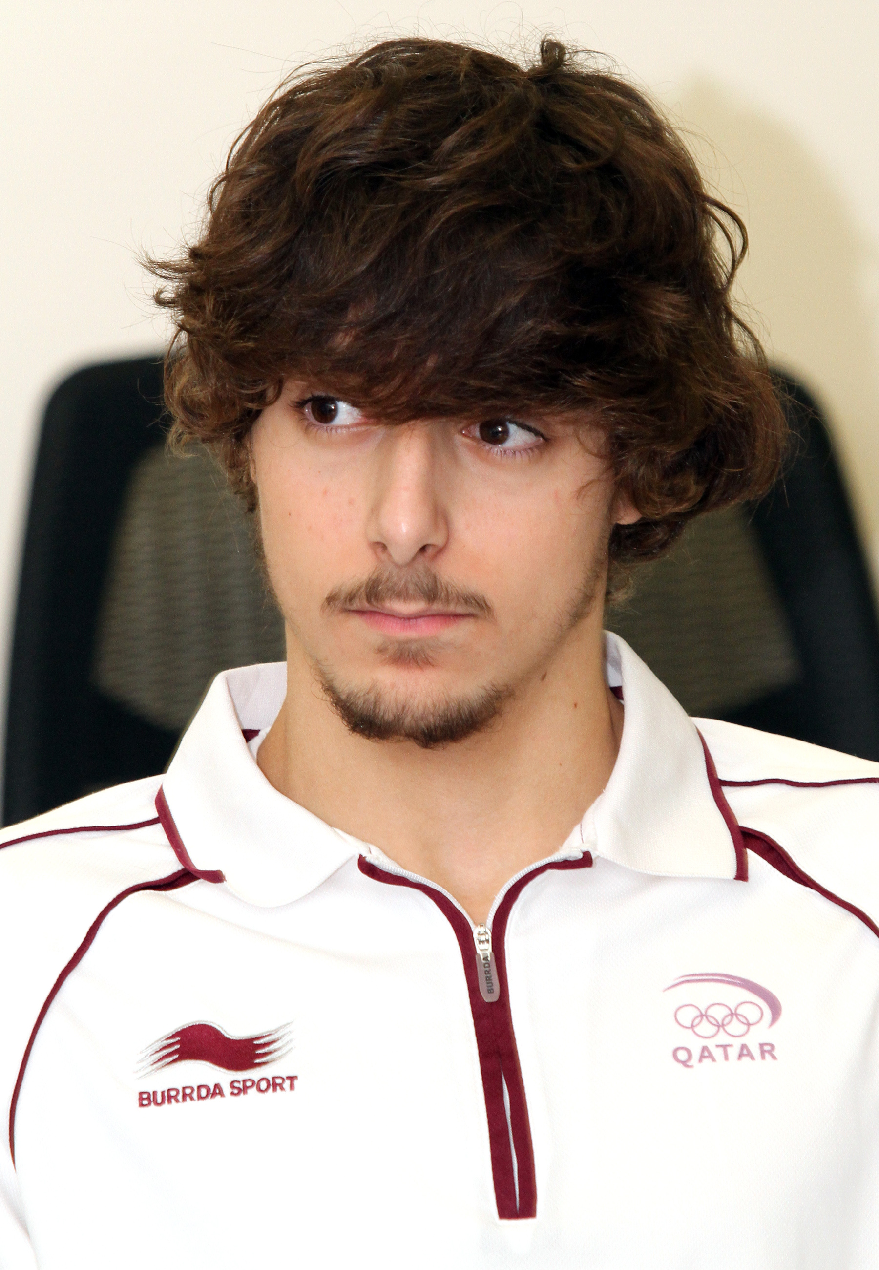 Qatari swimmer Ahmed Ghithe G Atari, who will compete at the 2012 London Olympic Games, during a Press conference. Picture by Vinod Divakaran